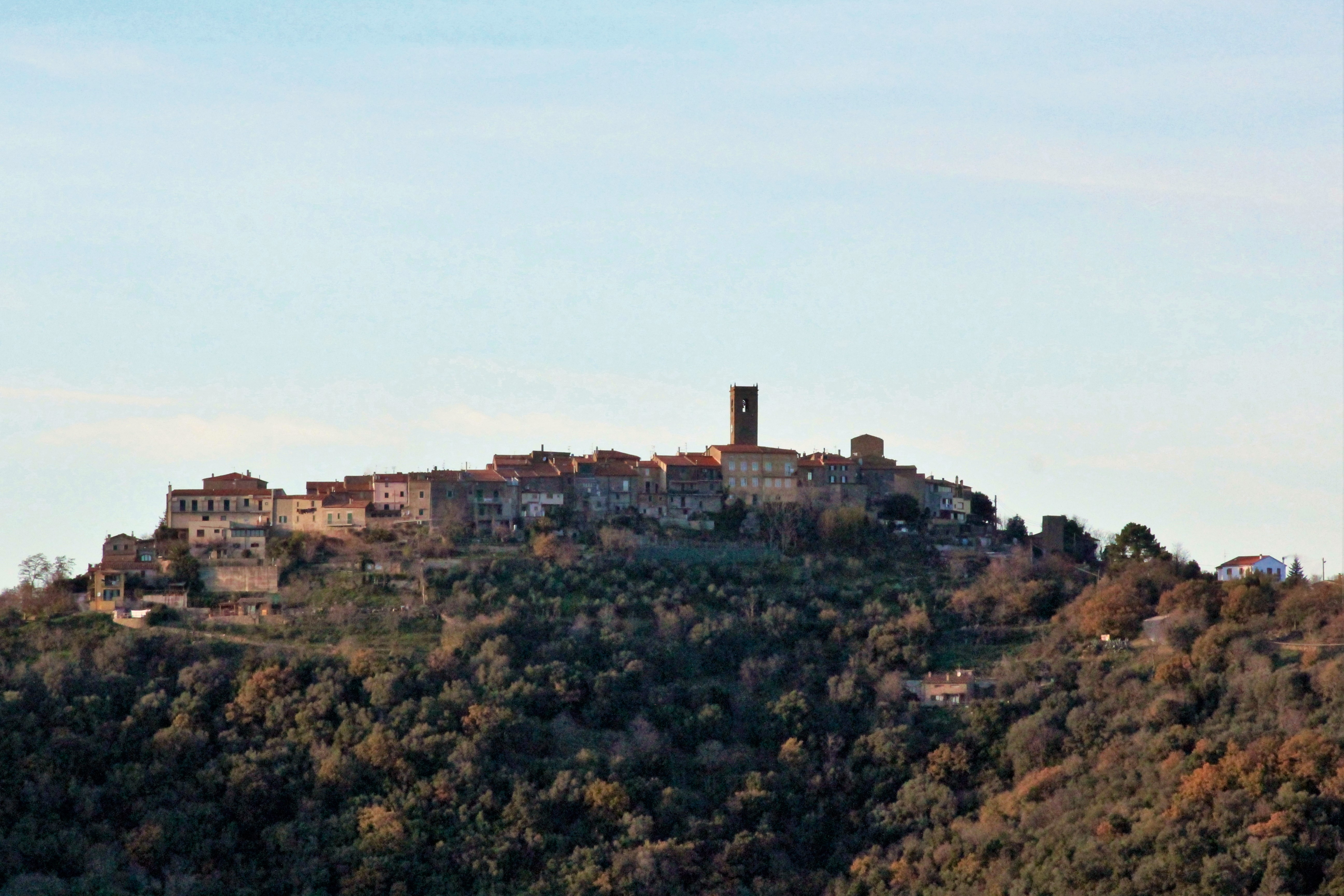 Panorama of Vetulonia, hamlet of Castiglione della Pescaia, Maremma, Province of Grosseto, Tuscany, Italy